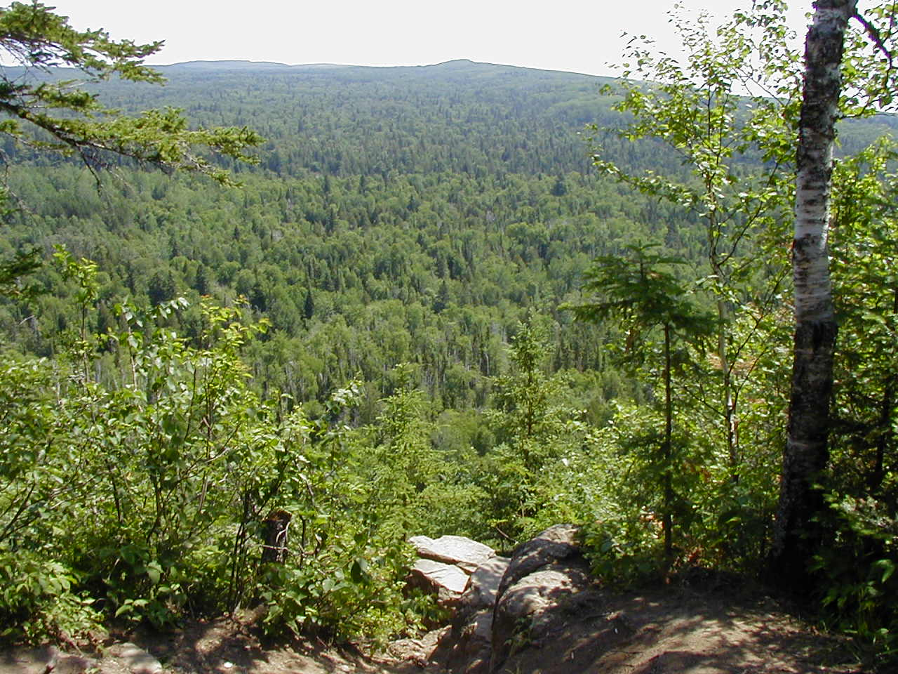 Taken by Pete Nelson hiking on the Superior Hiking Trail in Cascade State Park. Looking east from Lookout Mountain.